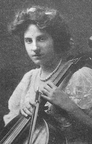 A young white woman with dark hair in an updo, wearing beads and a lacy white dress; she is holding a cello and a bow.